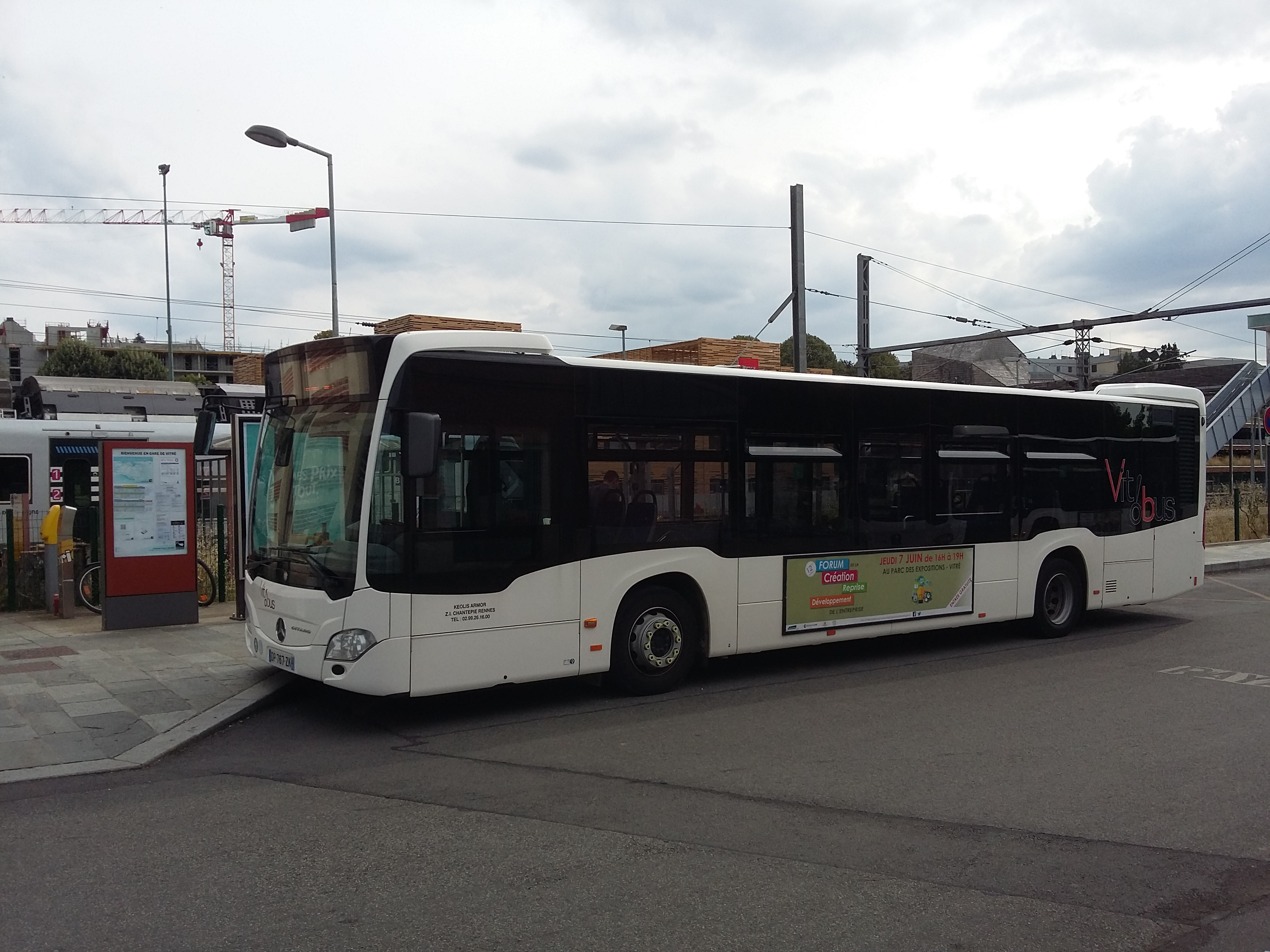 "Vitóbus" bus parked on the platform of the multimodal interchange hub, near the access to platform railway A of the Vitré station (direction Laval, Le Mans, Paris). At the bottom on the right is the pedestrian bridge over the access roads to quay B (direction Rennes) and C (departure / terminus) and to the car park of 607 free spaces and access to the cultural center and the southern districts, Behind the bus built the office building B-3000 wood cladding where will sit the support function "Agromousquetaires" (Intermarché brand of a general commercial French supermarket).